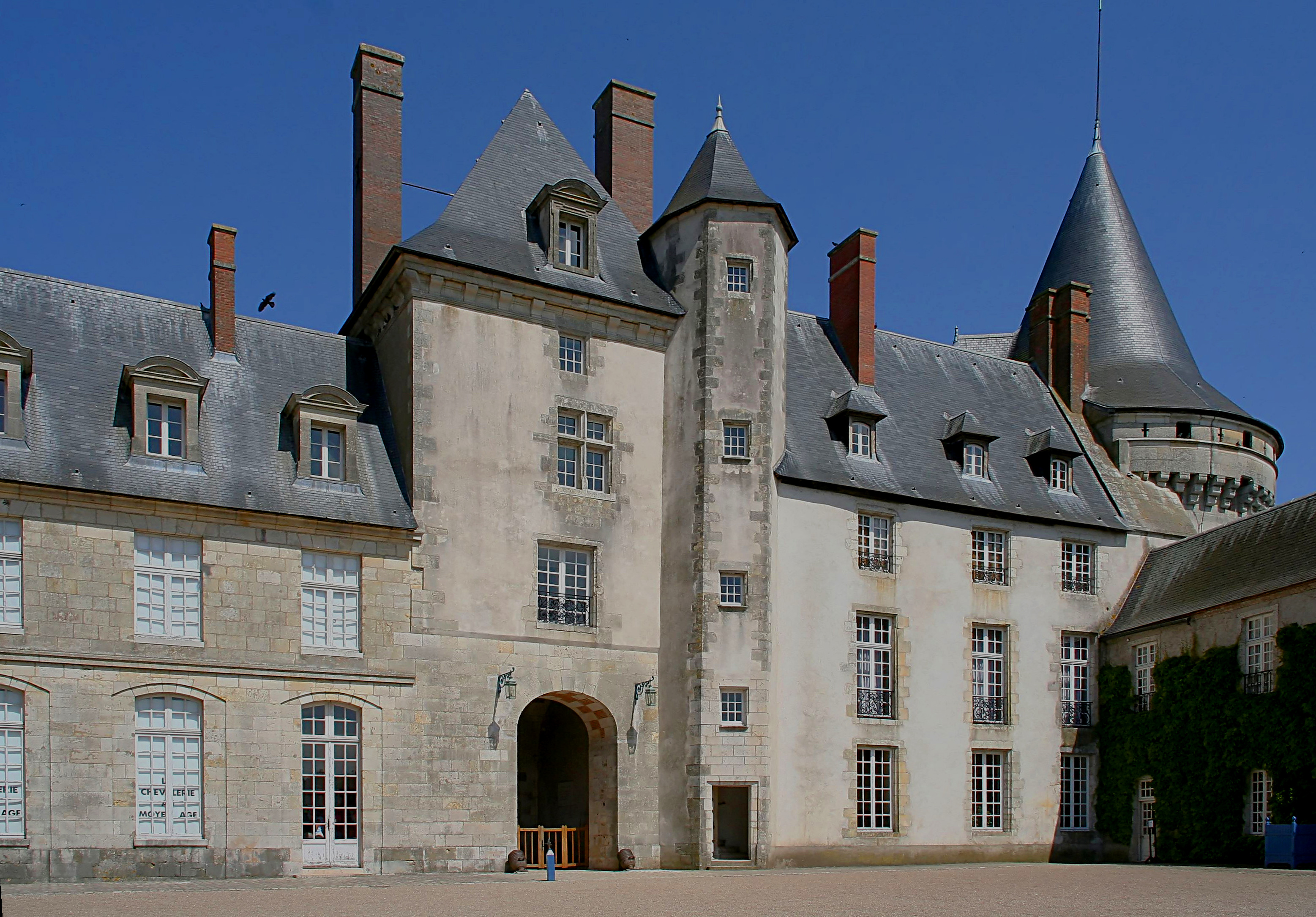 Castle of Sulls-sur-Loire, located in the county of Loiret / France